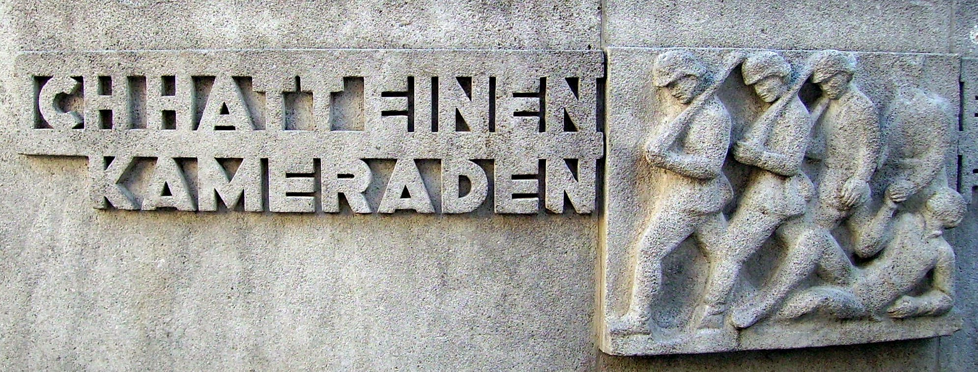 Detail of the "Soldier-fountain" in Speyer, Germany, with the epigraph: "I did have a comrade".